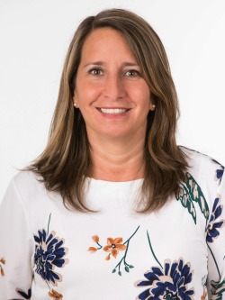 Karin Claudia Luck Urban en la fotografía oficial de diputados periodo 2018-2022. (Fotos: Christel Andler, René Lescornez, Johanna Zárate)